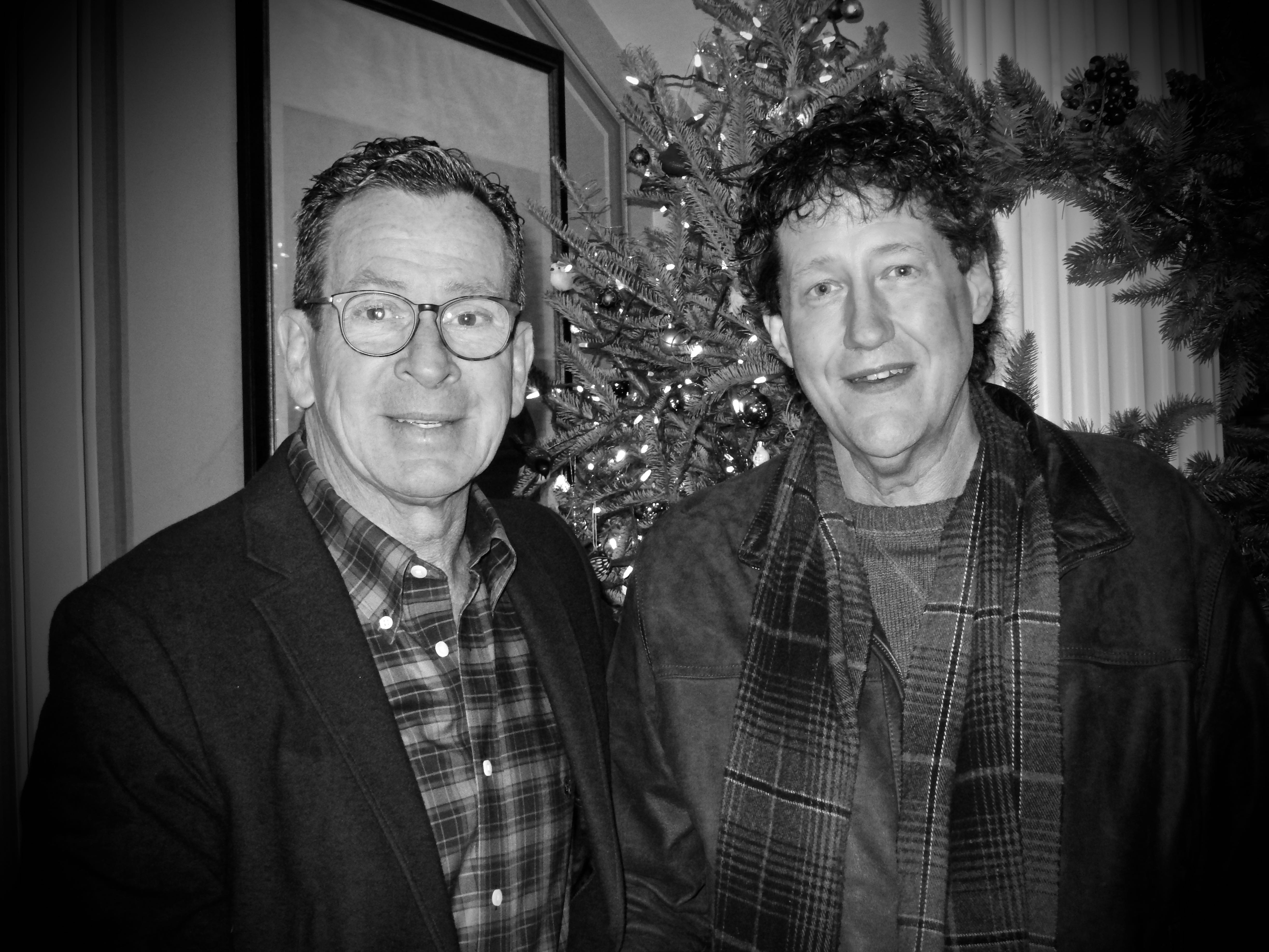 Author Mark Allen Baker with Connecticut’s 88th State Governor, Dannel Malloy, at the Governor’s Mansion in Hartford in December 2018.